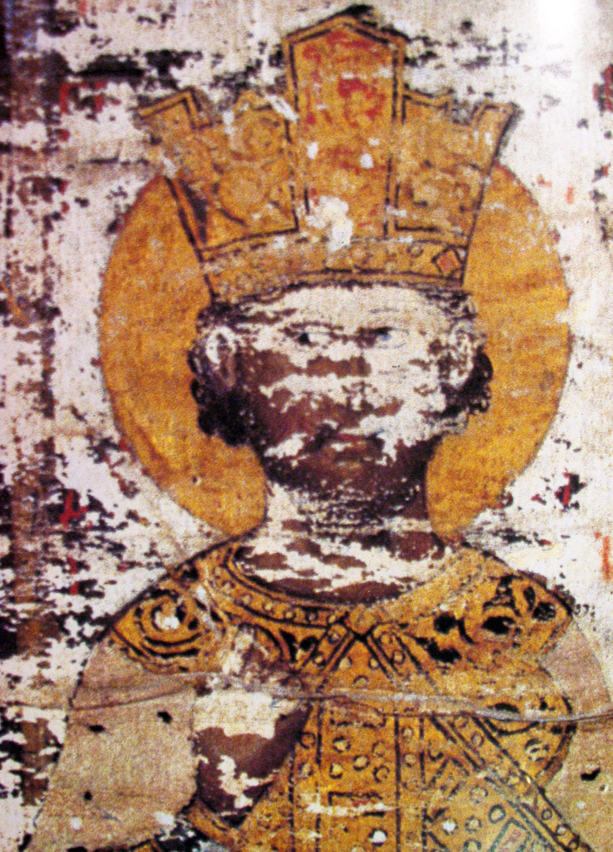 The ilustration of despot Đurađ Branković in Esphigmenou charter from 1429.